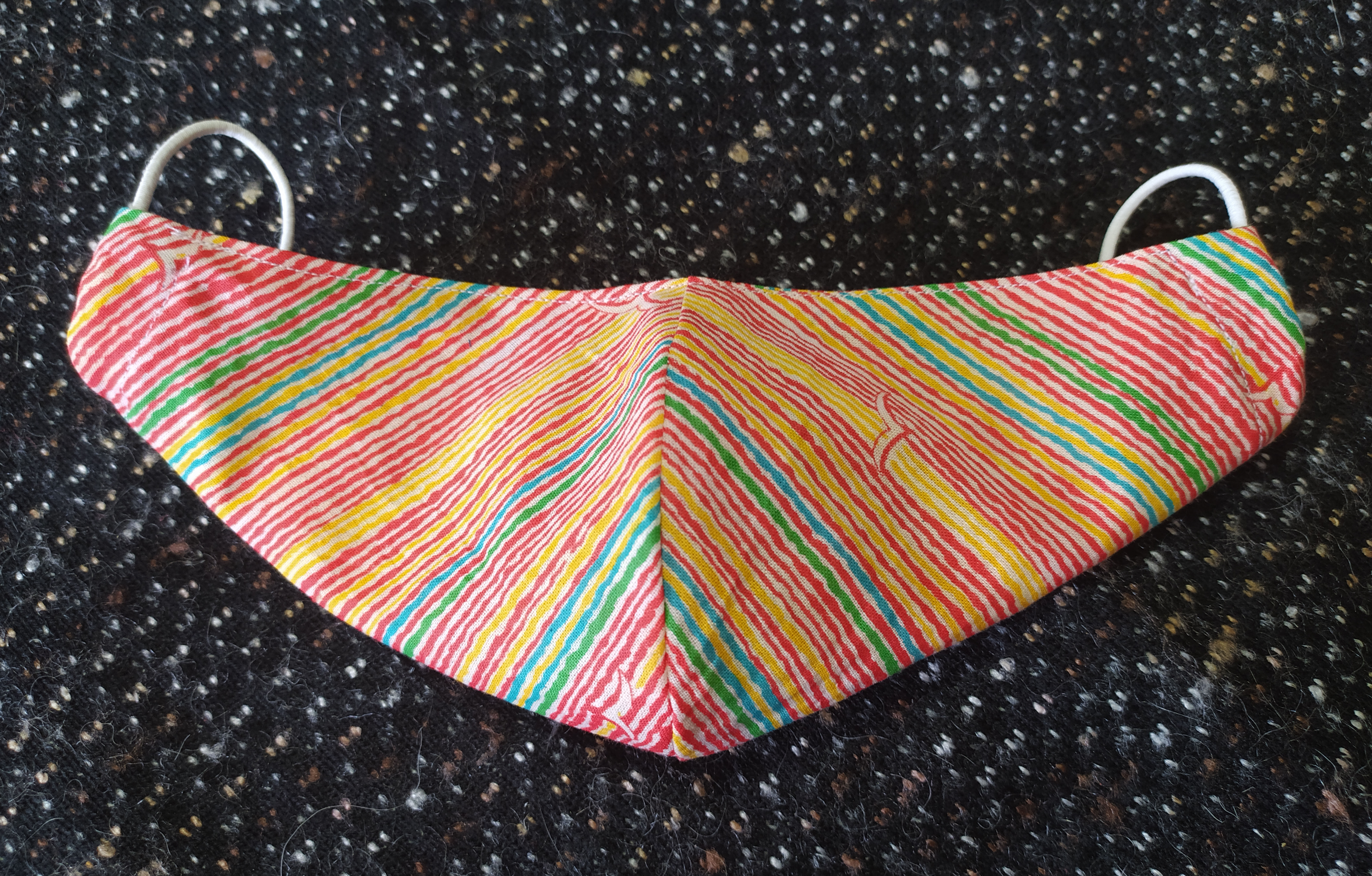 Homemade cloth face mask